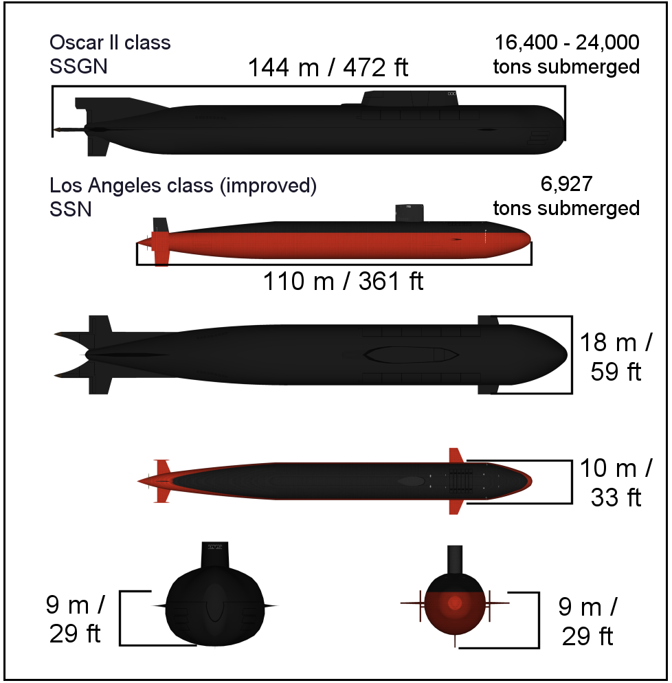 Comparison of size/weight between 688i class and Oscar II class. Note, the 688i actually pictured is USS Tucson (SSN-770)